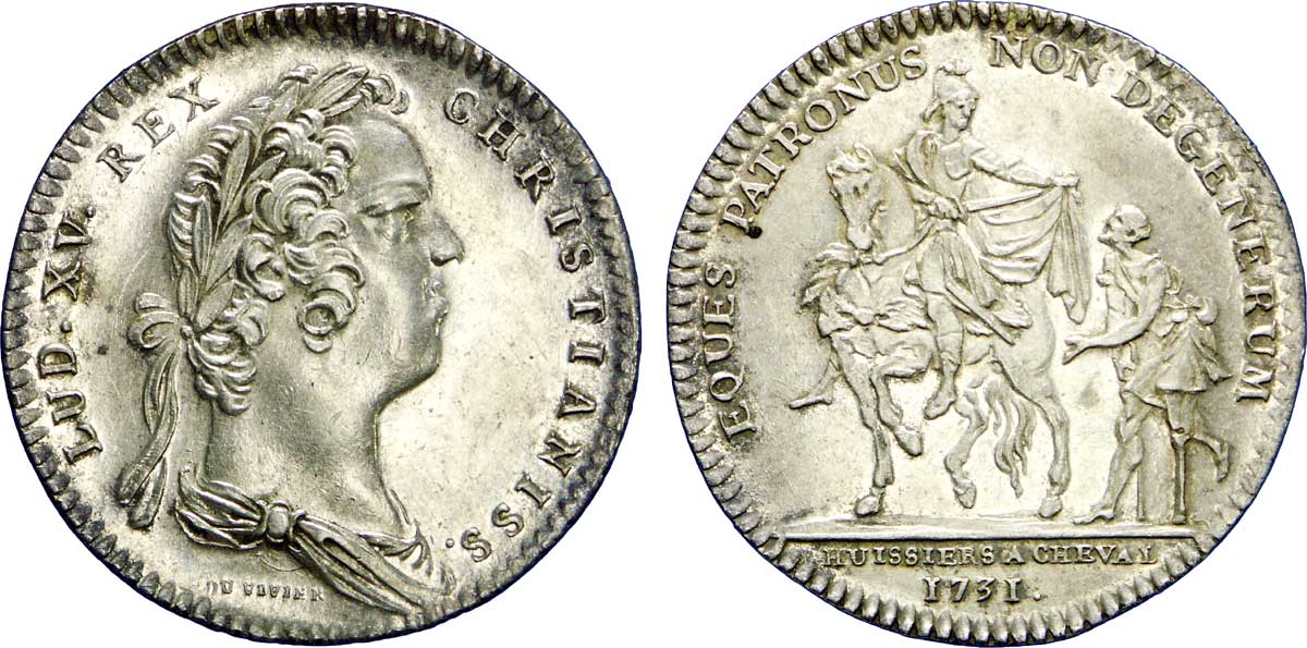 Jeton de la corporation des huissiers à cheval, 1731. Les huissiers à cheval du Châtelet pouvaient résider en n’importe quel endroit du royaume, officier partout et procéder aux prises et ventes de meubles là où il n’y avait pas d’huissiers-priseurs